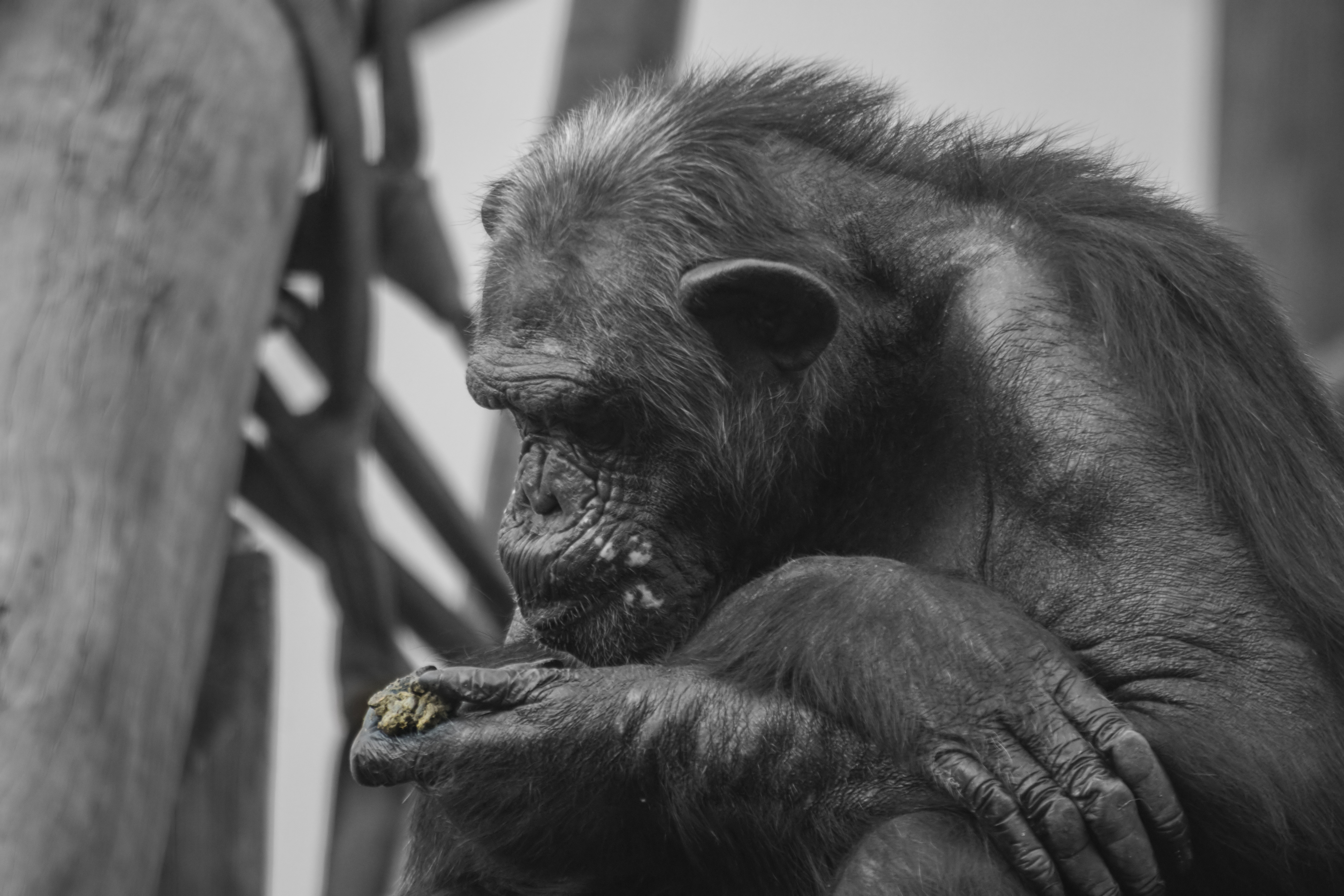 Pan paniscus eating his feces